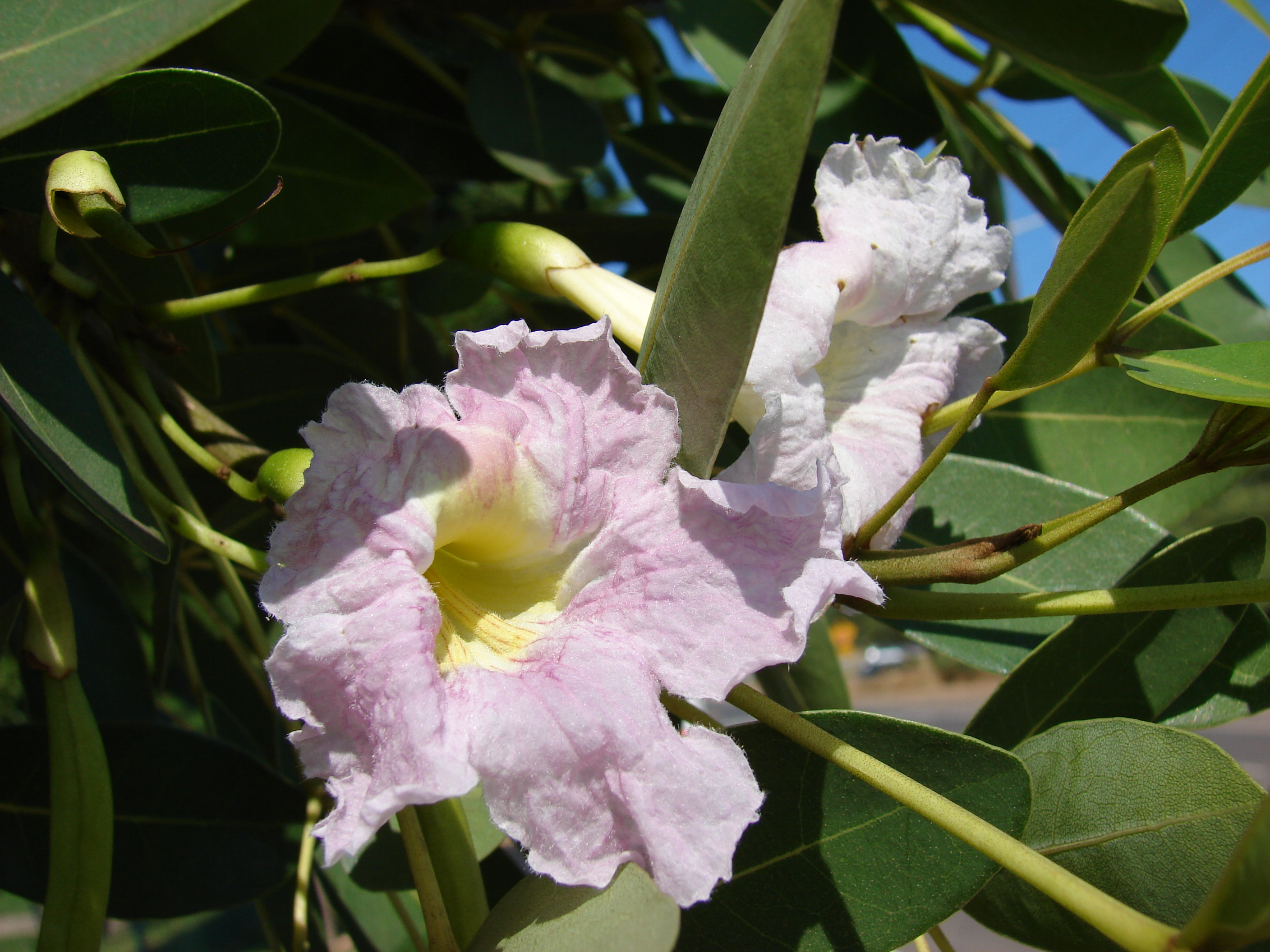 Tabebuia rosea (flowers). Location: Maui, Kihei